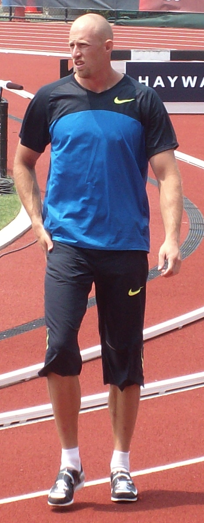 Tom Pappas